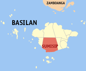 Map of the Basilan showing the location of Sumisip